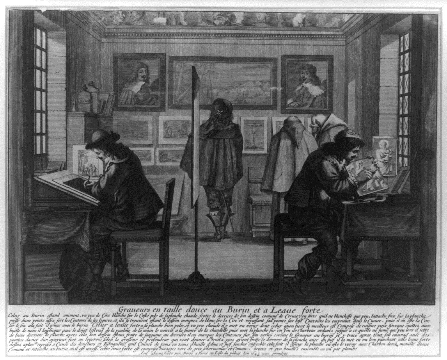 Abraham Bosse (1604-1676): Graveurs en taille-douce au burin et à l'eau-forte. Library of Congress description: "Print shows an etcher sitting on the left and an engraver sitting on the right (identified by pencil inscription as Abraham Bosse) in studio and gallery with patrons viewing prints hanging on the wall in the background."